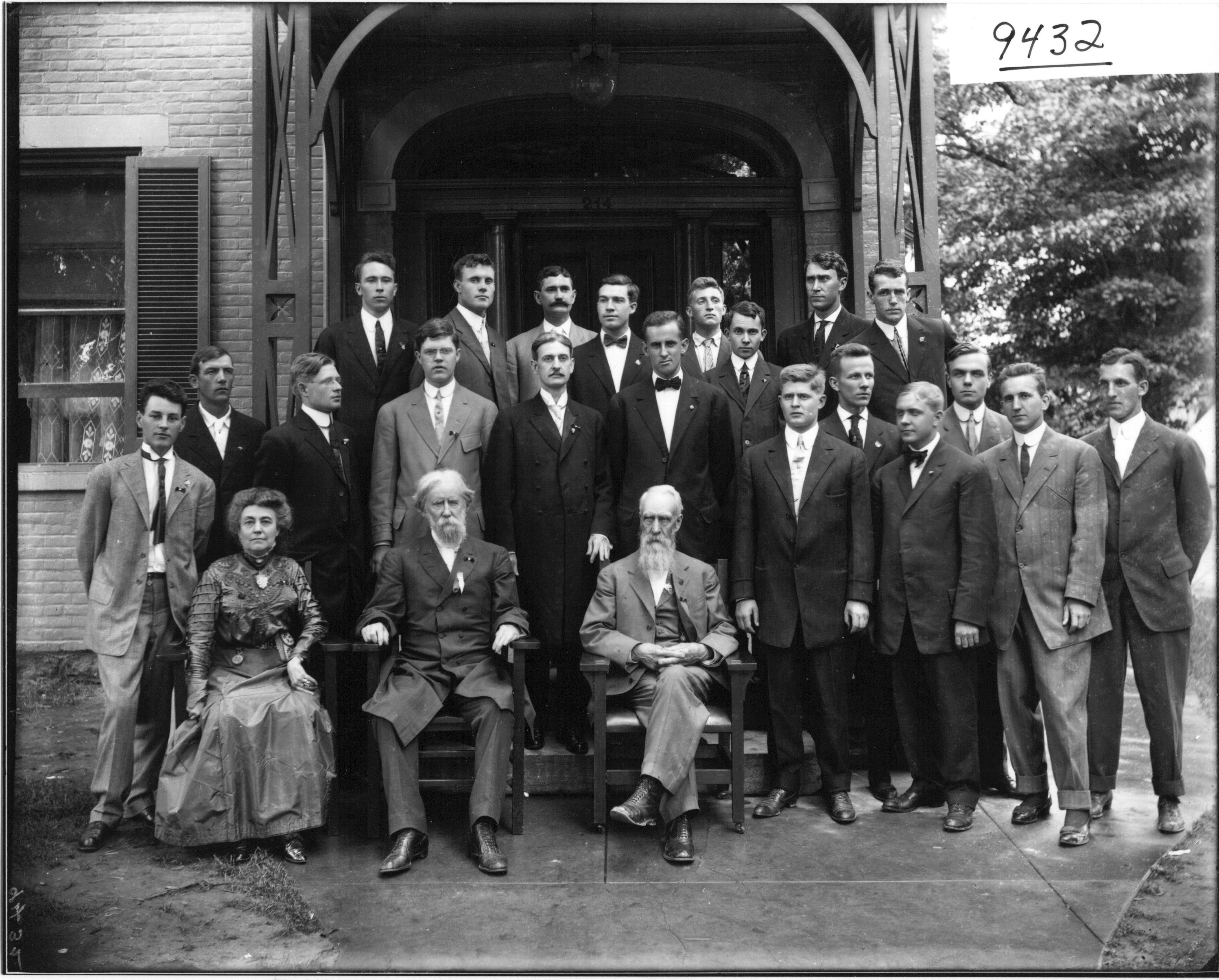 Persistent URL: Subject (TGM): Student organizations; Women; Fraternities and sororities; Reunions; Events; Centennial celebrations; Alumni and alumnae; Group portraits; Location: Oxford, Ohio One woman with large group of men. Taken during Miami Centennial